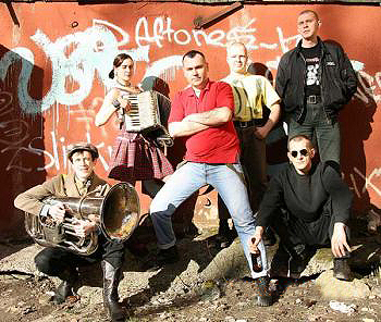 BEEROCEPHALS